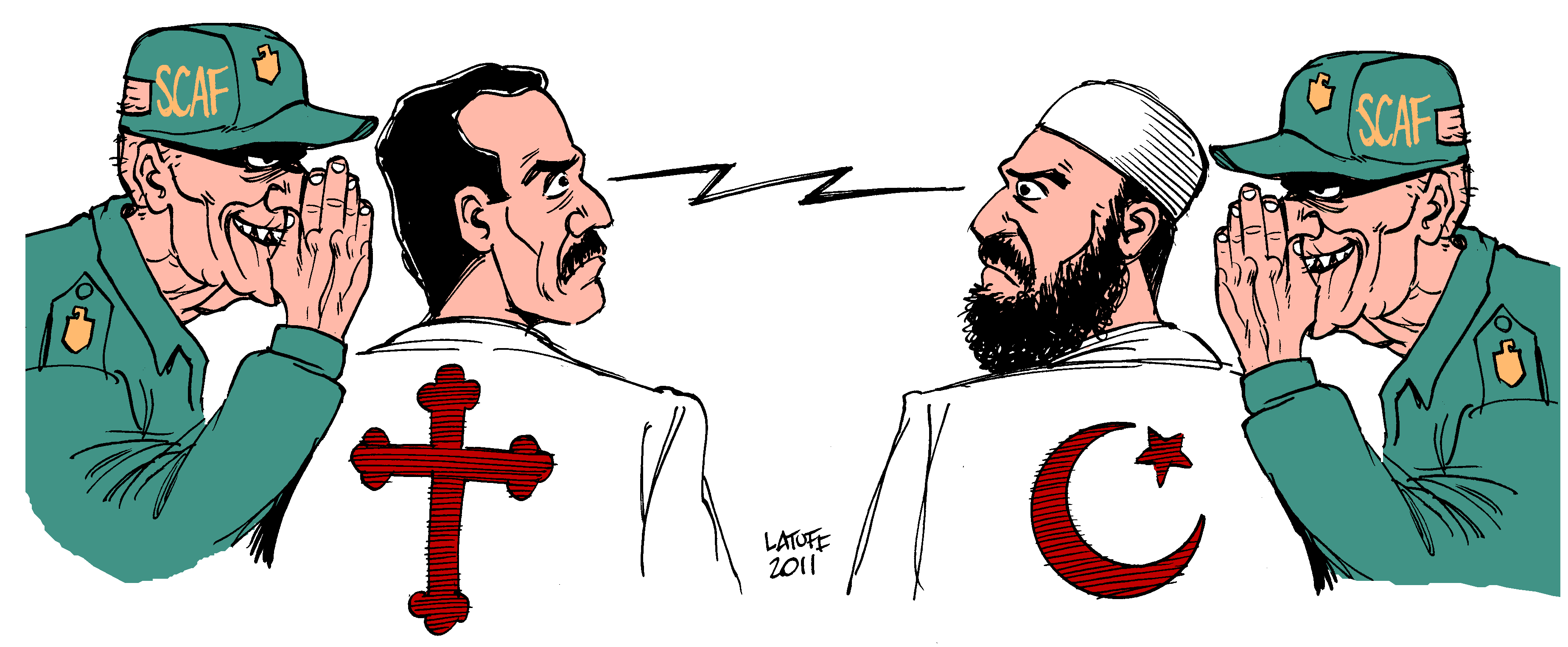 SCAF fuelling sectarian hate in Egypt